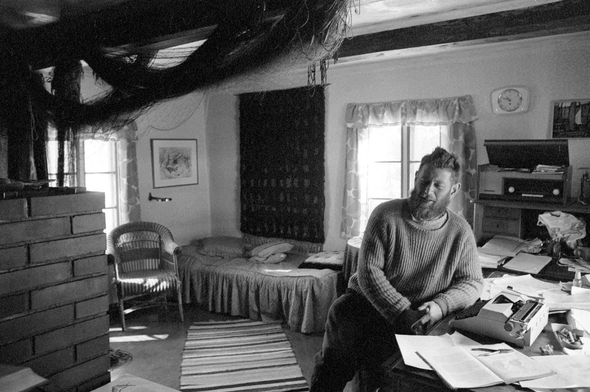 Photograph of the Finnish writer Pentti Linkola at his home in Kuhmoinen. (Possibly photographed on 20 April 1969.)